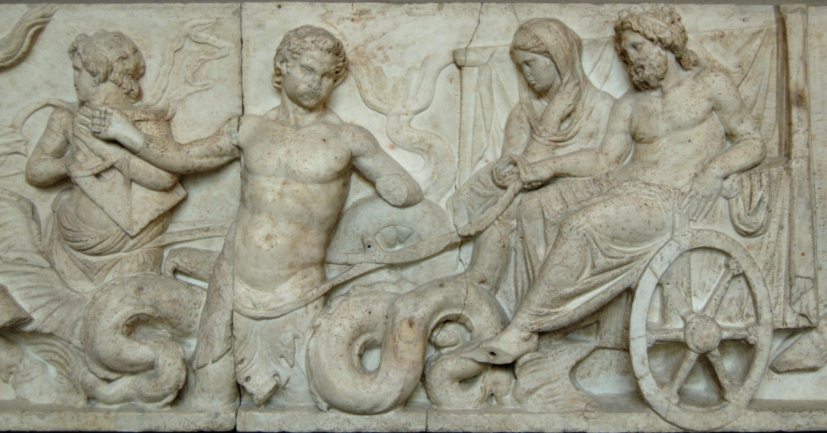 So-called “Altar of Domitius Ahenobarbus” or “Statue Base of Marcus Antonius”, relief freize of a monumental statue group base. Sea thiasos for the wedding of Poseidon and Amphitrite, 2nd half of the 2nd century BC. Detail: Poseidon and Amphitrite in the bridal carriage, drawn by two Tritons playing music (front panel).